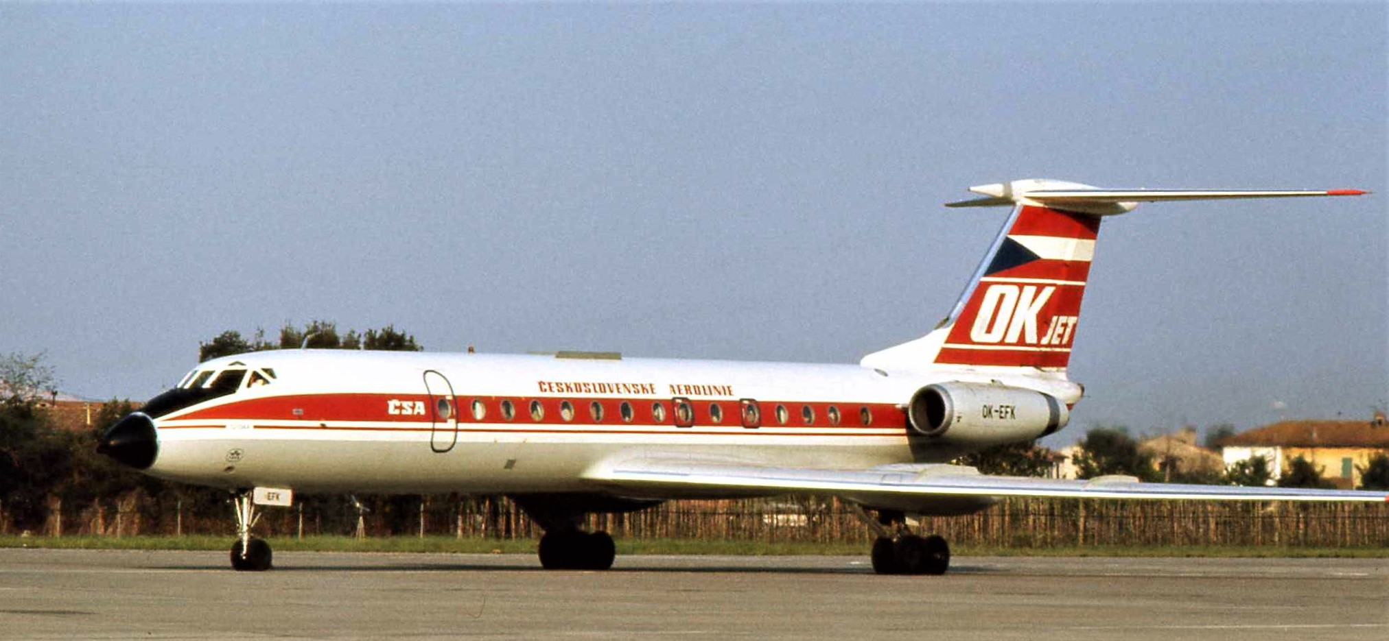 Czech Airlines Tupolev Tu-134A on charter flight to Pisa Galileo Galilei Airport from Prague in May 1975.